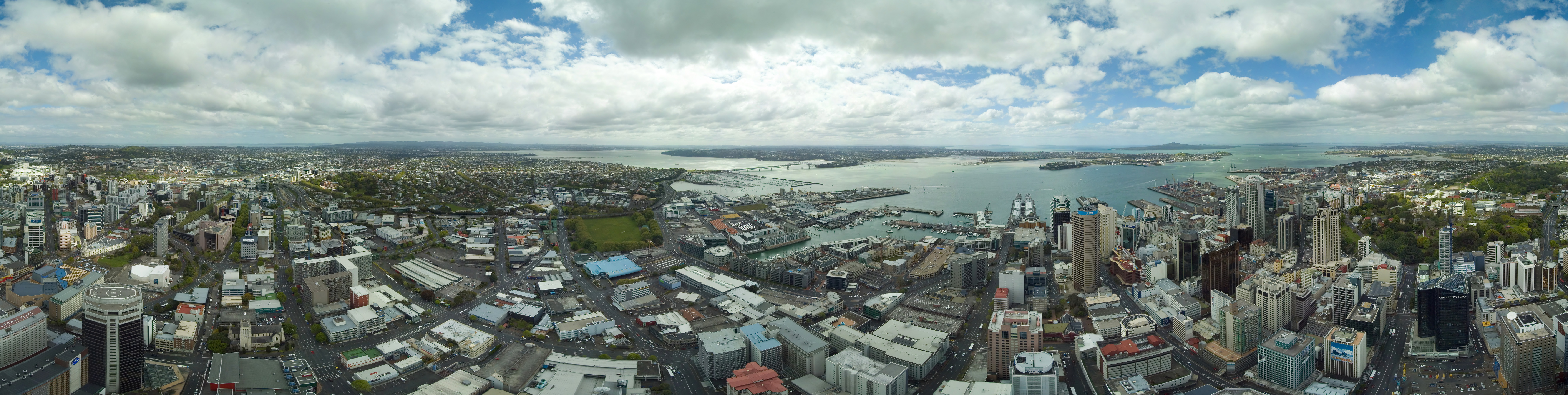 360xapprox. 90degree panorama from the sky deck of Sky Tower, Auckland, New Zealand. Stiched fro 34 images using Ptgui and Smartblend.